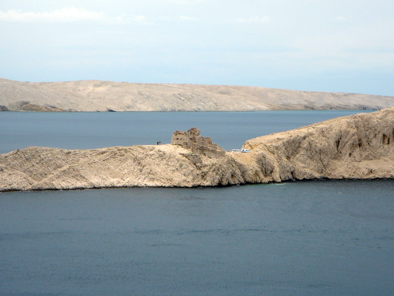 Old Castle